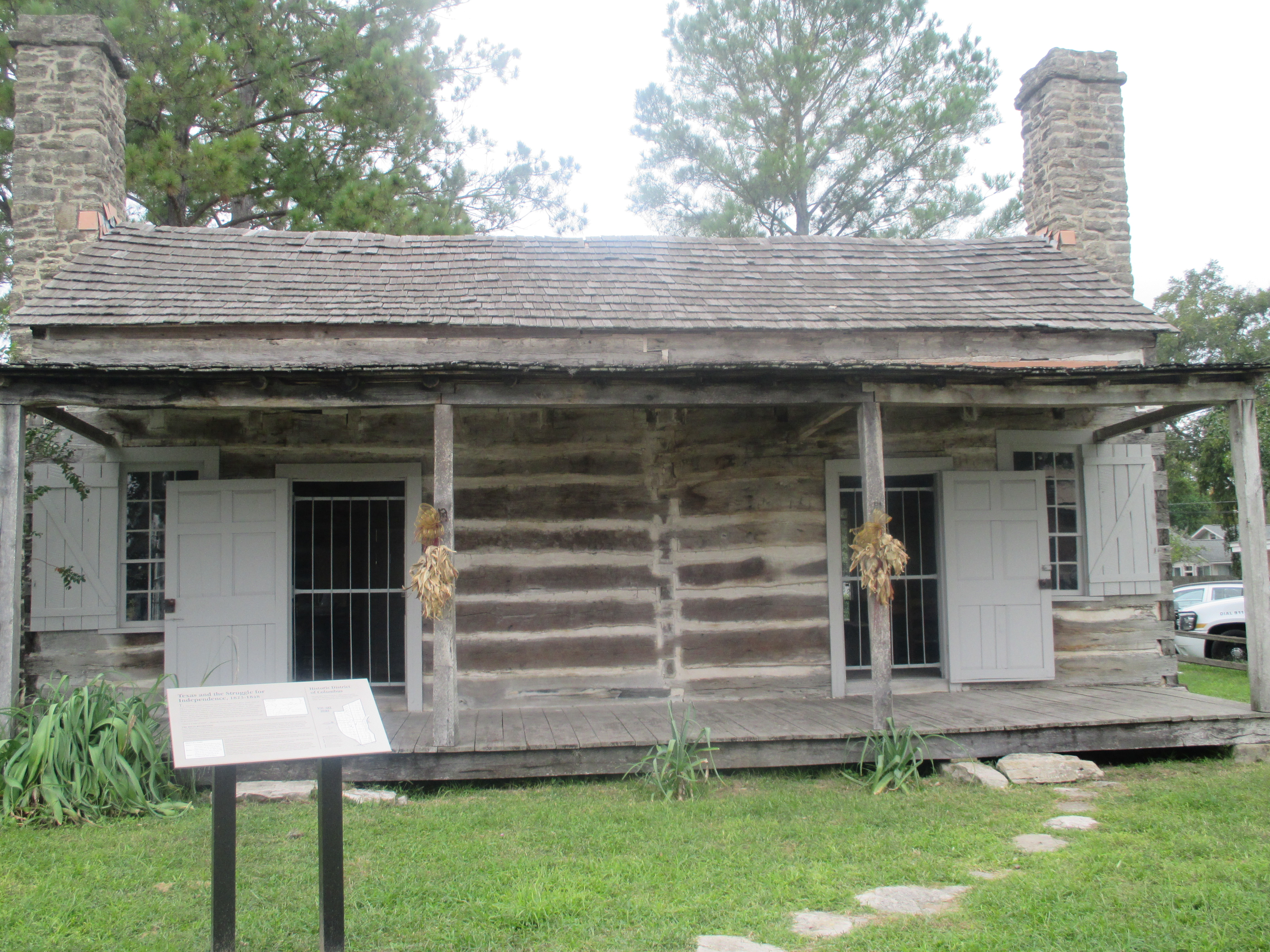 I took photo with Canon camera of Abram Alley Log Cabin in Columbus, TX.